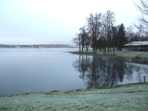 View of Sunday Lake